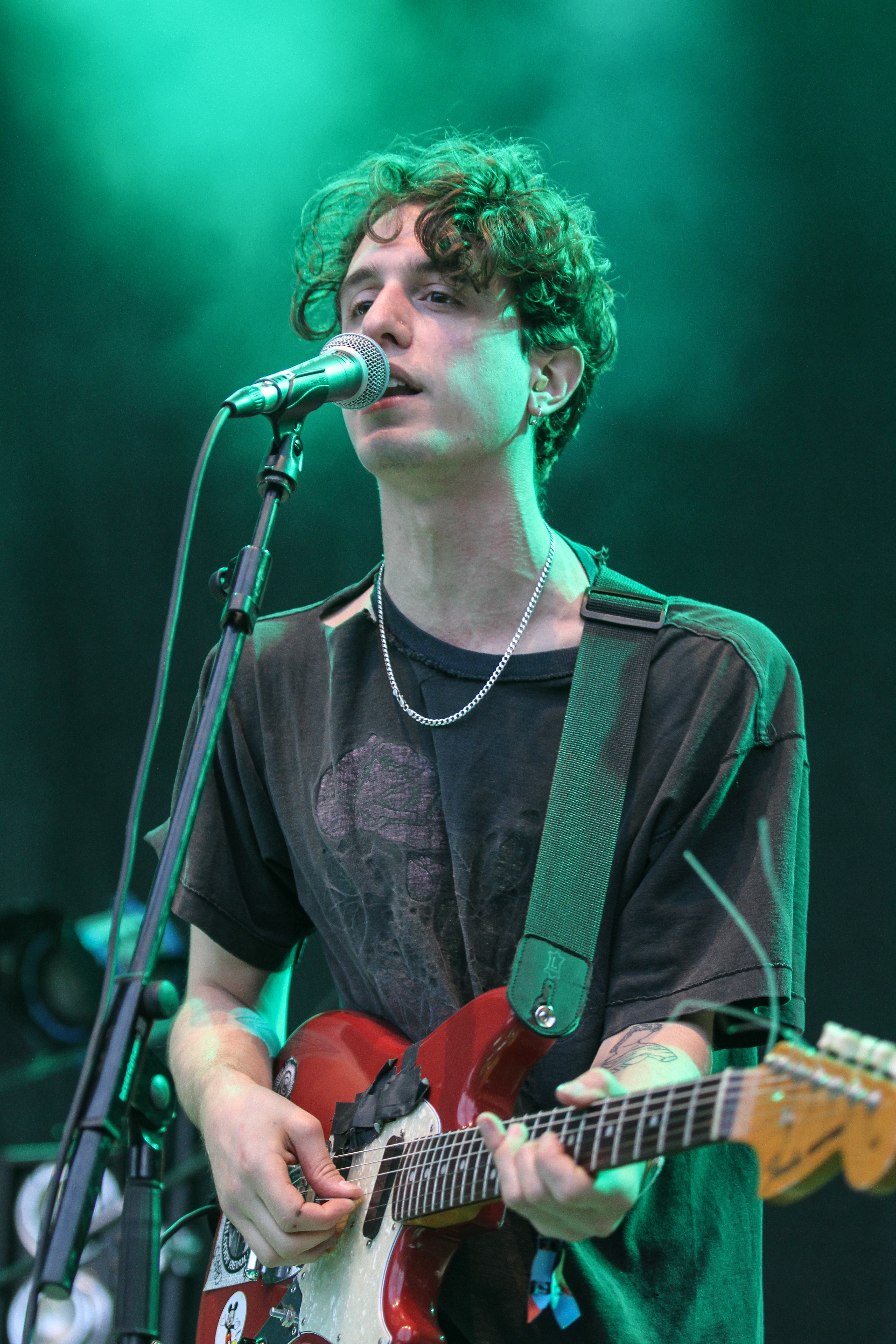 Festivalsommer This photo was created with the support of donations to Wikimedia Deutschland in the context of the CPB project "Festival Summer".